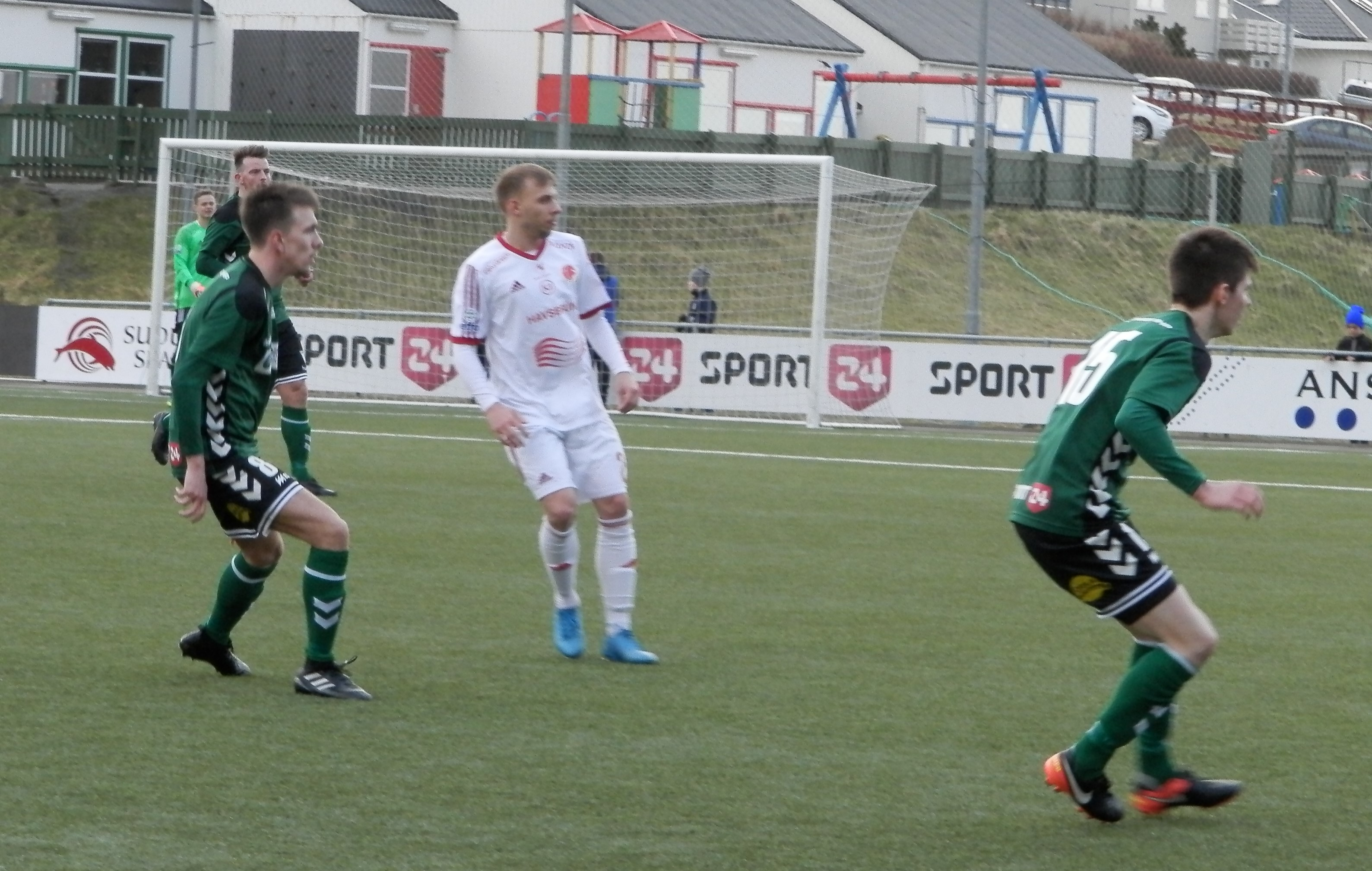 In December 2016 it was decided that the three football clubs of the island Suðuroy would merge into one club. The merger will not be complete until 2018, but they will play as one club in 2017 with the name of all three clubs: TB/FC Suðuroy/Royn. Amongst the fans they are simply called Suðringar (ringar) which means people from Suðuroy. They played their first match in the top tier on 12 March 2017 against ÍF Fuglafjørður on their home field at Við Stórá Stadium inTrongisvágur. They won the match 2-1.